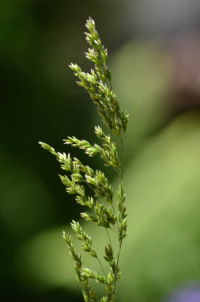 Poa trivialis L. - Rough-sheathed bluegrass